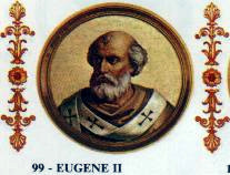 Pope Eugene II